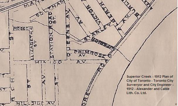 Superior Creek Map - 1912.